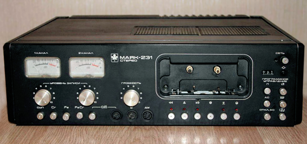 USSR (Ukraine) “Mayak-231” cassette recorder 1983